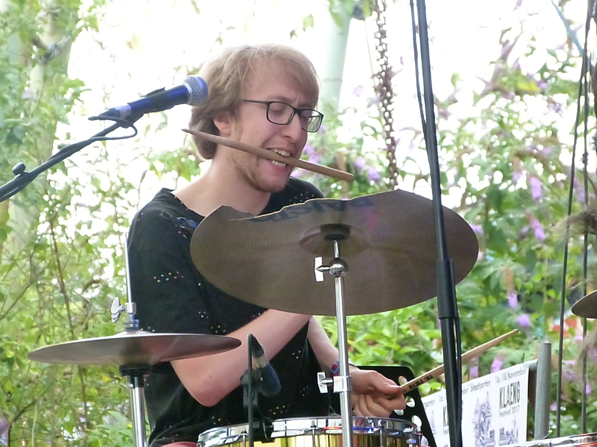 Dominik Mahnig (dr,synth,voc) in concert of 'Marek Johnson' with David Helm (b,bgit,voc) and Thomas Sauerborn (dr,voc)) at KLAENG Festival, Cologne, Germany, July 16th, 2017